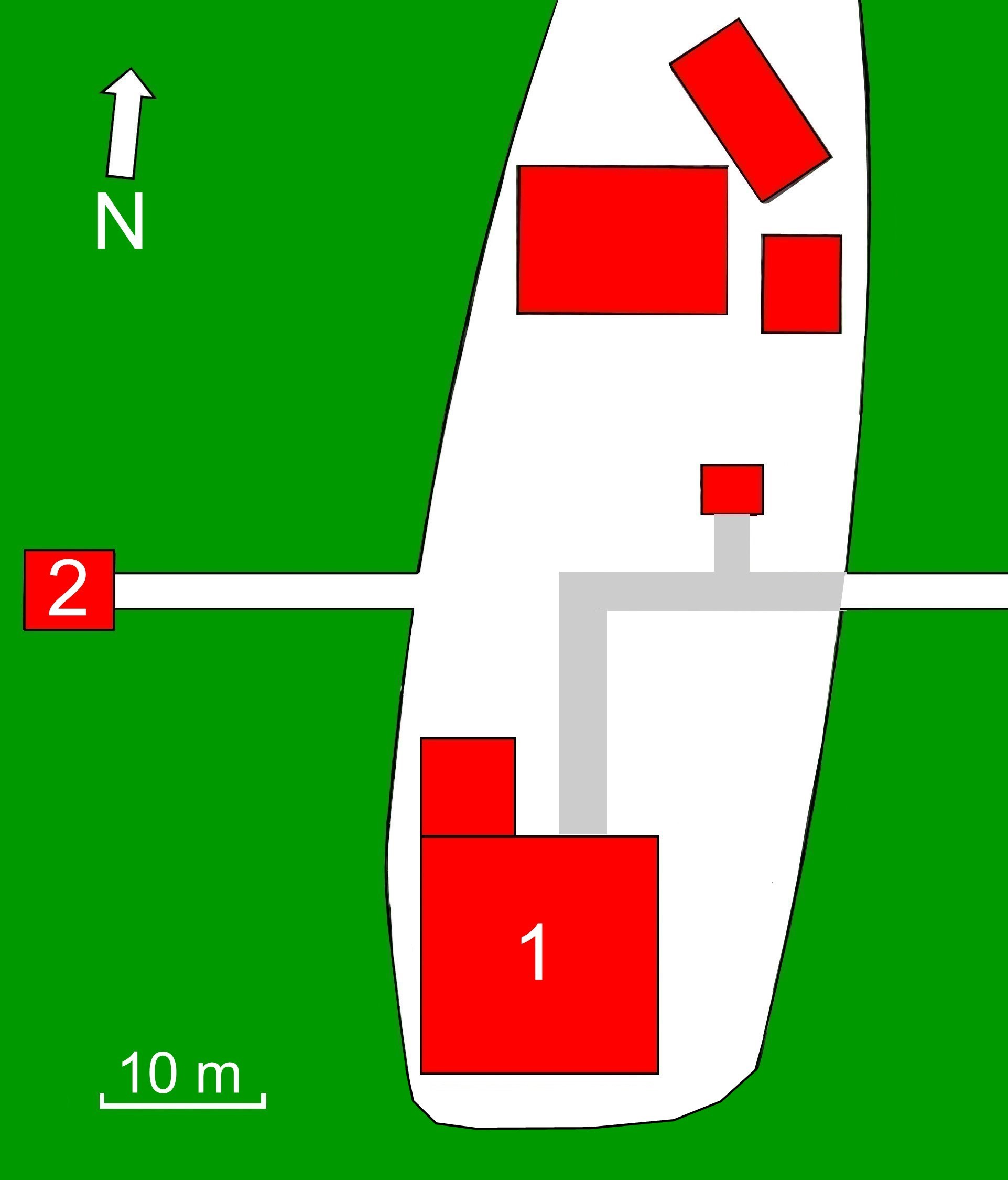 Layout of Tachigisan temple at Otsu, Shiga prefecture, Japan